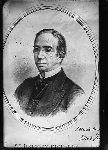 1 negative : glass, wet collodion, b&w ; 11 x 8 cm.